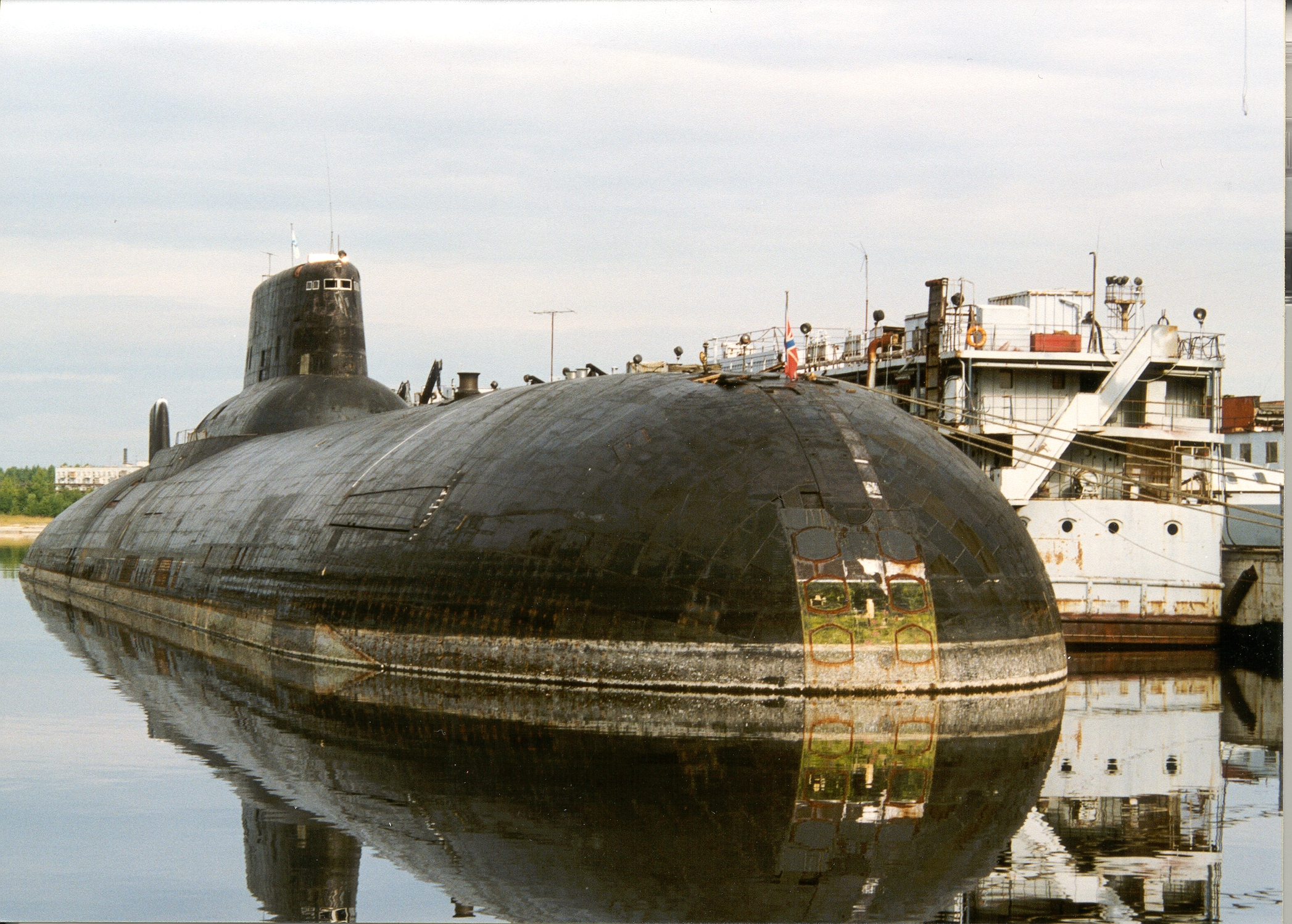 A Russian Typhoon-class submarine TK-202 sits at SEVMASH Yard prior to dismantlement under the Cooperative Threat Reduction program implemented by the Defense Threat Reduction Agency. (DTRA photo)